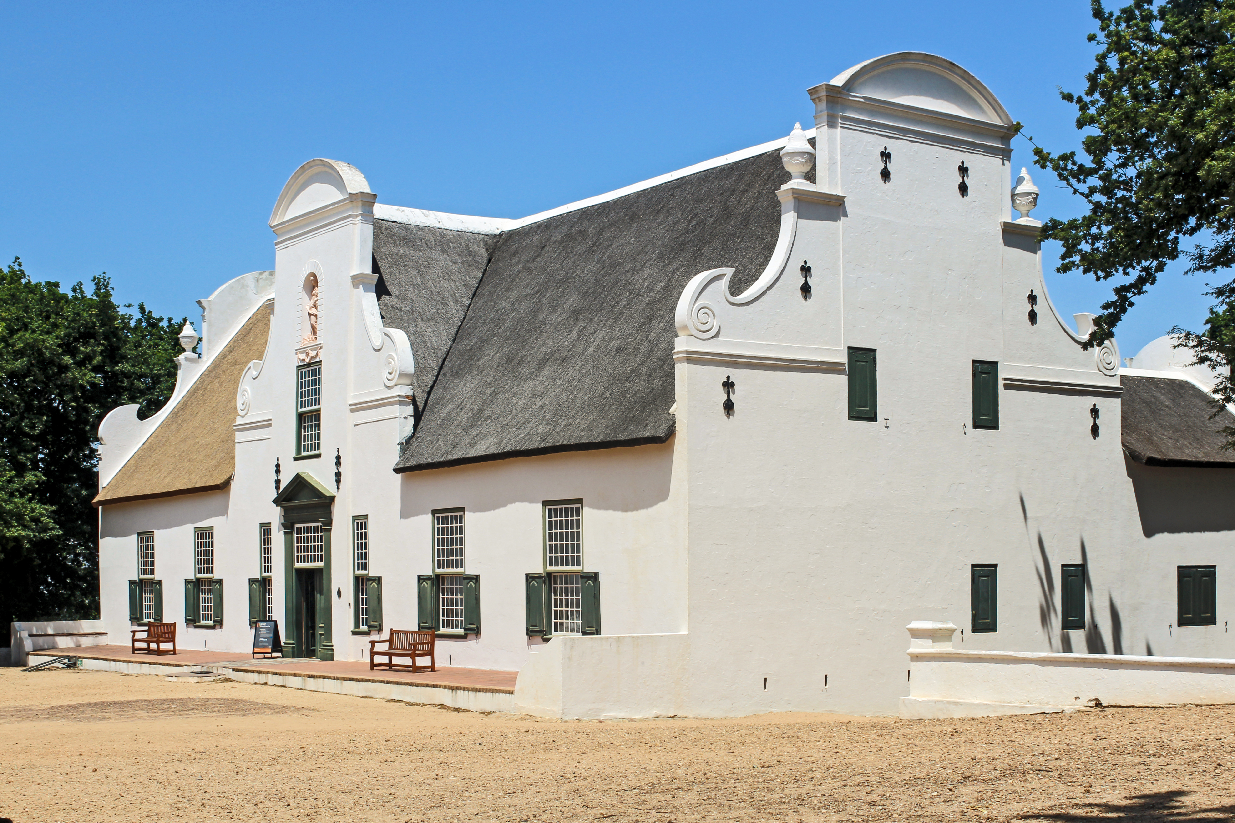 The main house of the Groot Constantia vineyard near Town. In 1685 Simon van der Stel, then governor of the Cape received a 763 hecare grant of land and built the main dwelling in the Cape Dutch architectural style. The house was burnt down in 1925 but was subsequently restored.